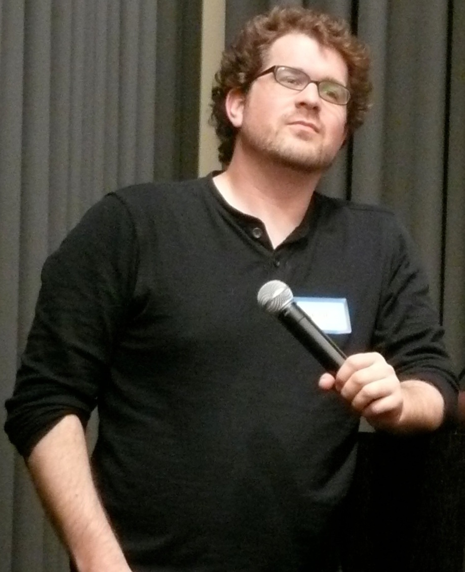 Seth Gordon during a private screening of "H*Commerce: The Business of Hacking You".